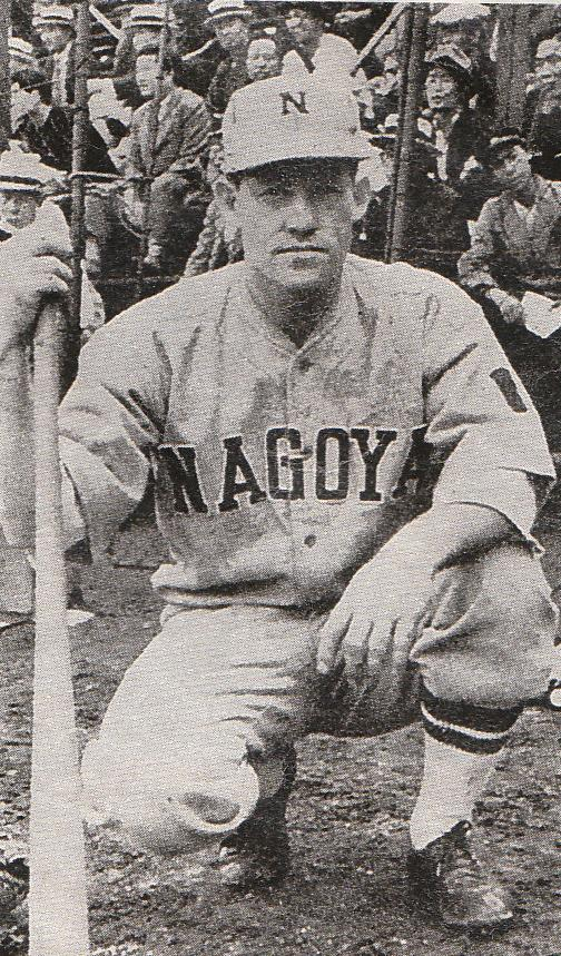 Bucky Harris McGalliard at Nagoya professional baseball team establishment this time